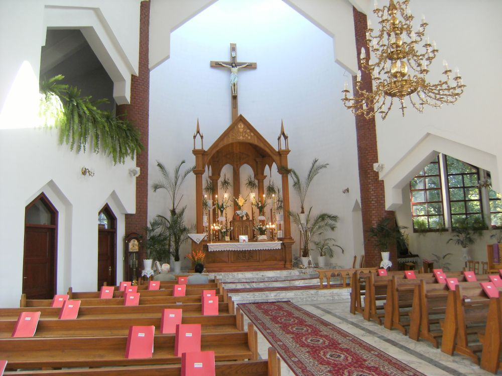 Old Catholic Mariavite Church in Poland